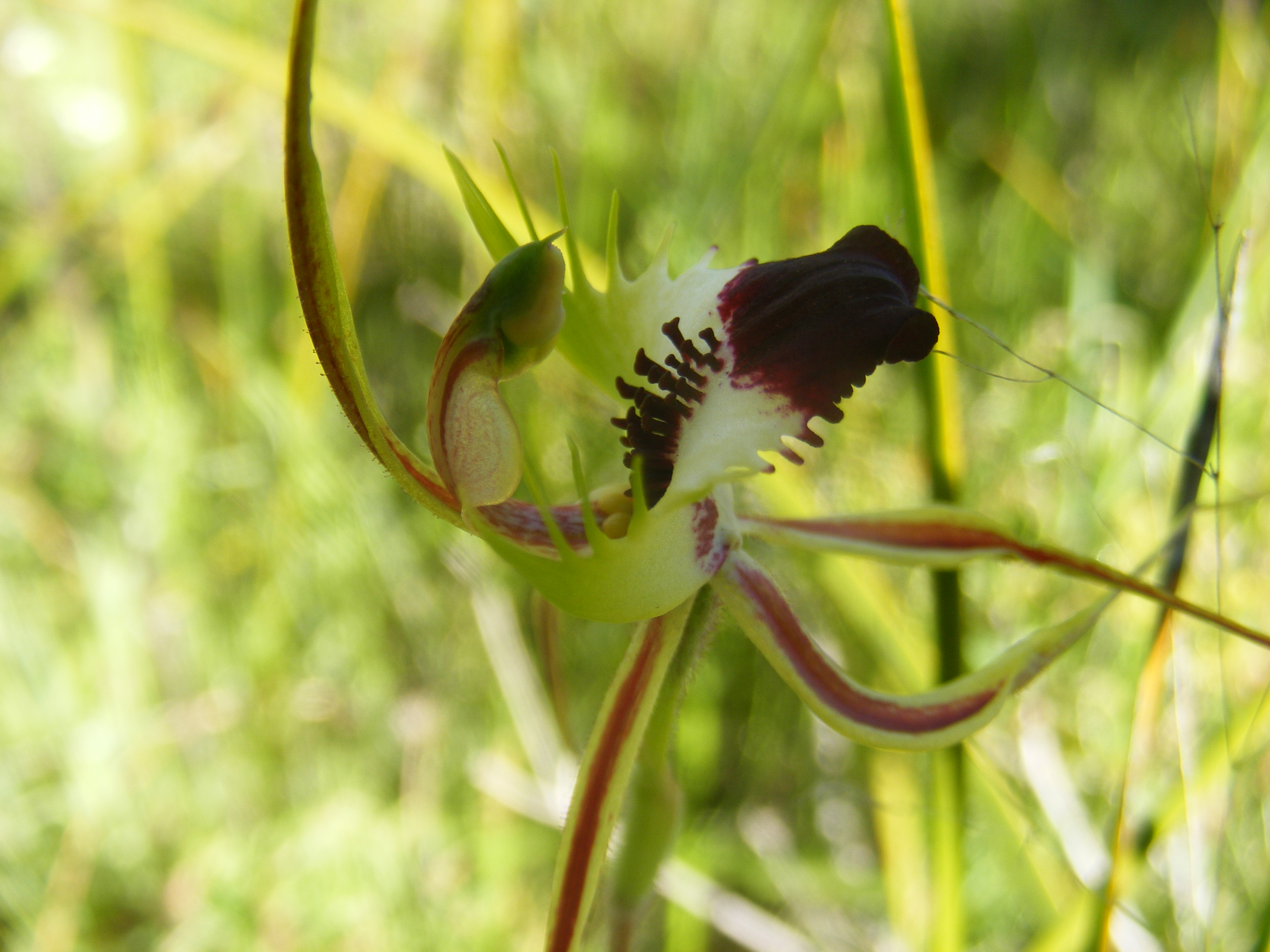 Australian orchid, the Hairy Spider Orchid (Caladenia villosissima)